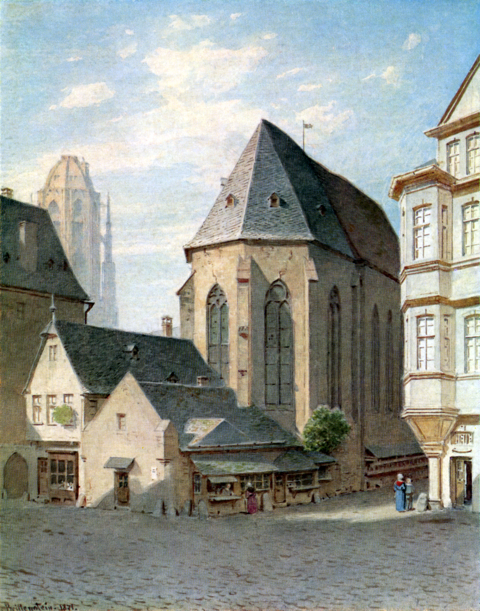 Frankfurt on the Main: Johanniterkirche (Saint John's Church) at the corner of Fahrgasse (Drive Lane) and Schnurgasse (Line Lane) as seen to the southwest, historicising depiction of the situation before 1845